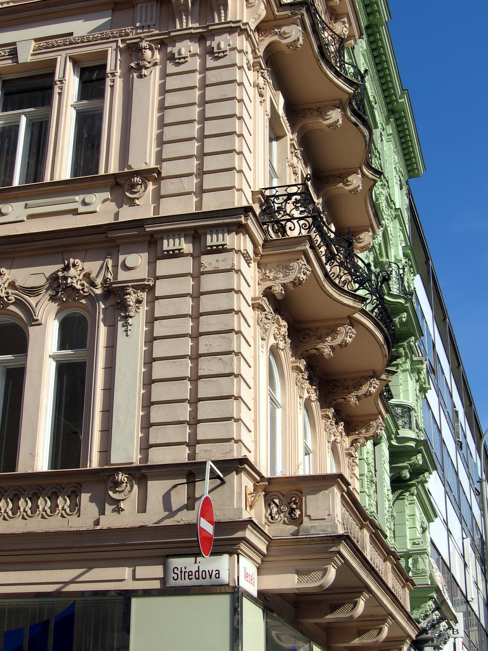 Brno, Stredonius Street